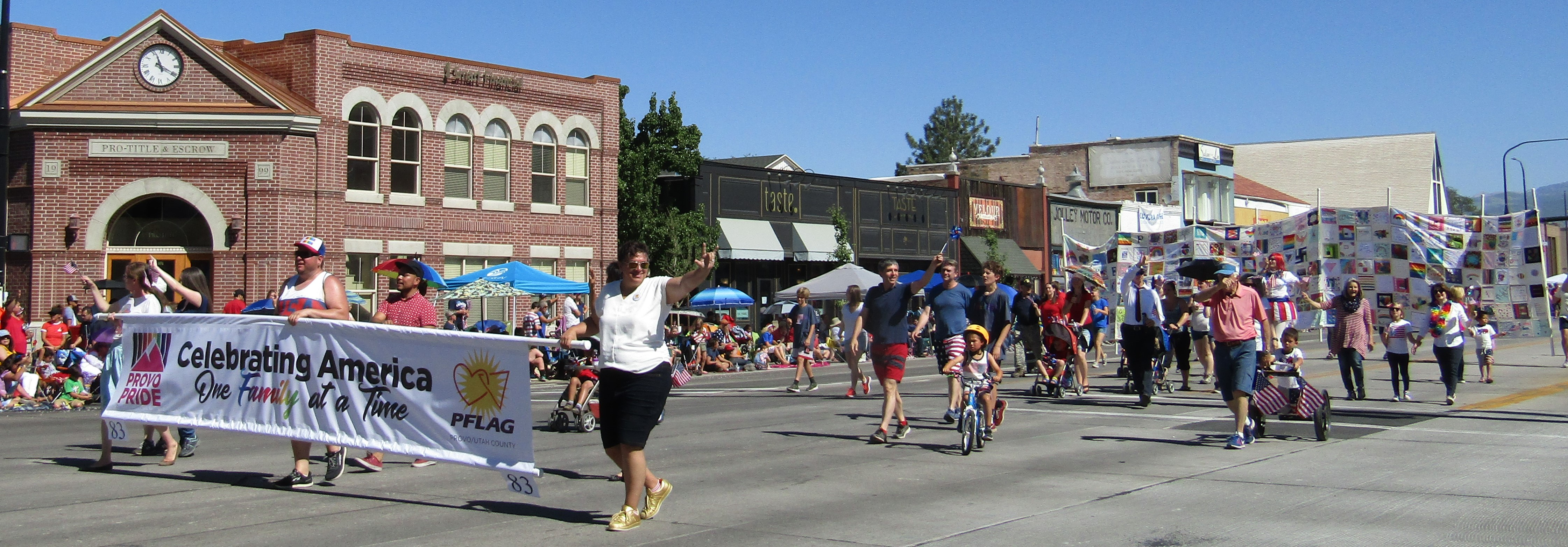 Provo Pride with their "Celebrating America One Family at a Time" banner in the Freedom Festival Grand Parade.